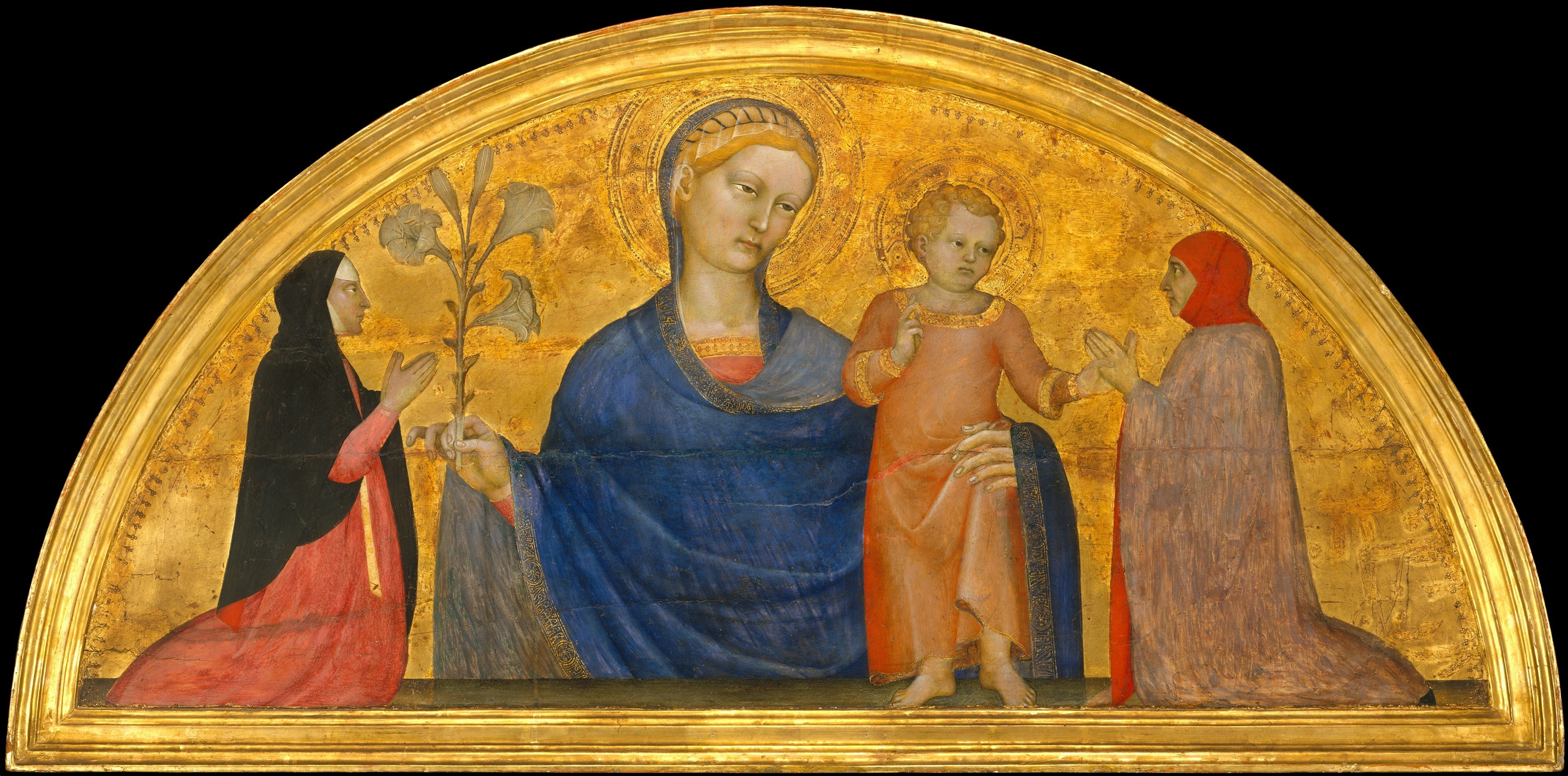 Italian Gothic paintings in the Metropolitan Museum of Art